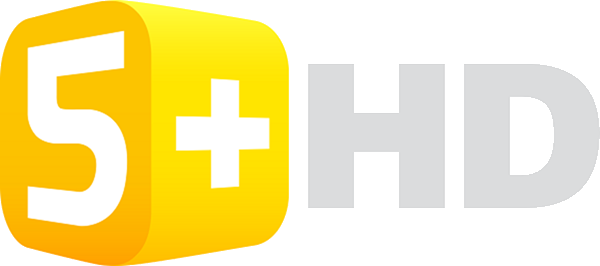 This is the official Logo of "5+ HD" Television.